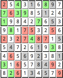 harmony search "Sudoku"